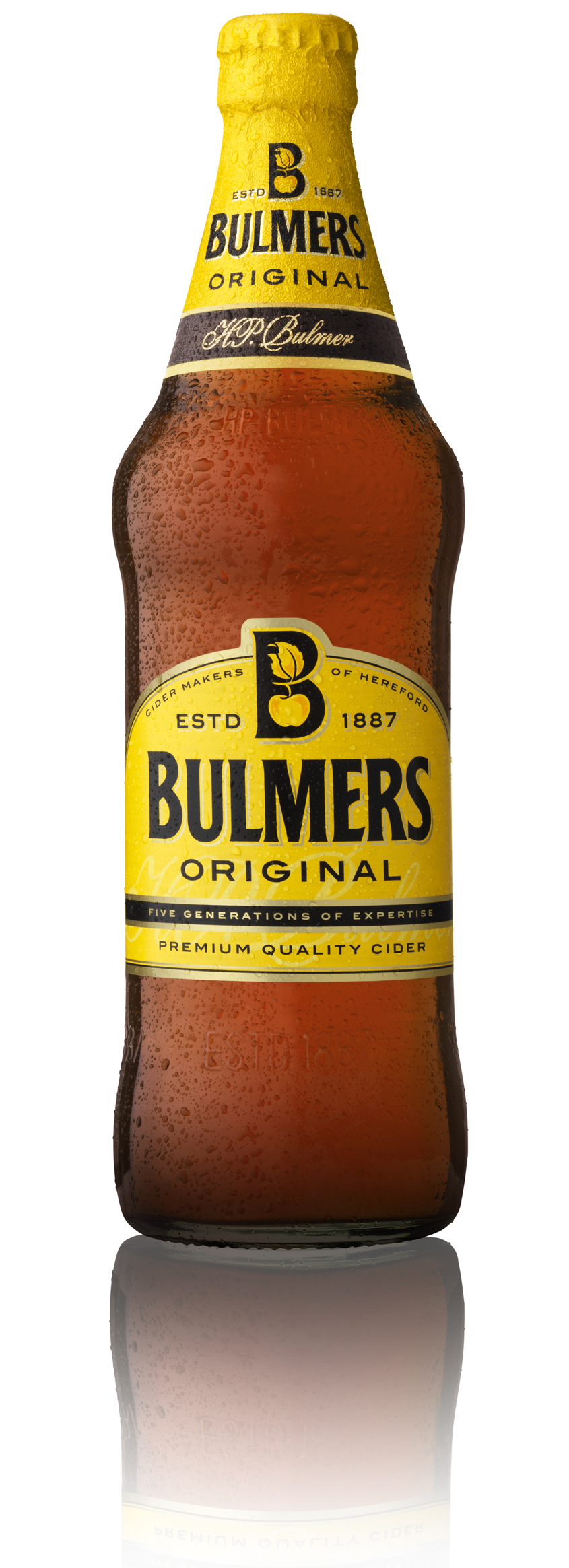 Bulmers Original cider bottle.Bulmers of Hereford, England.